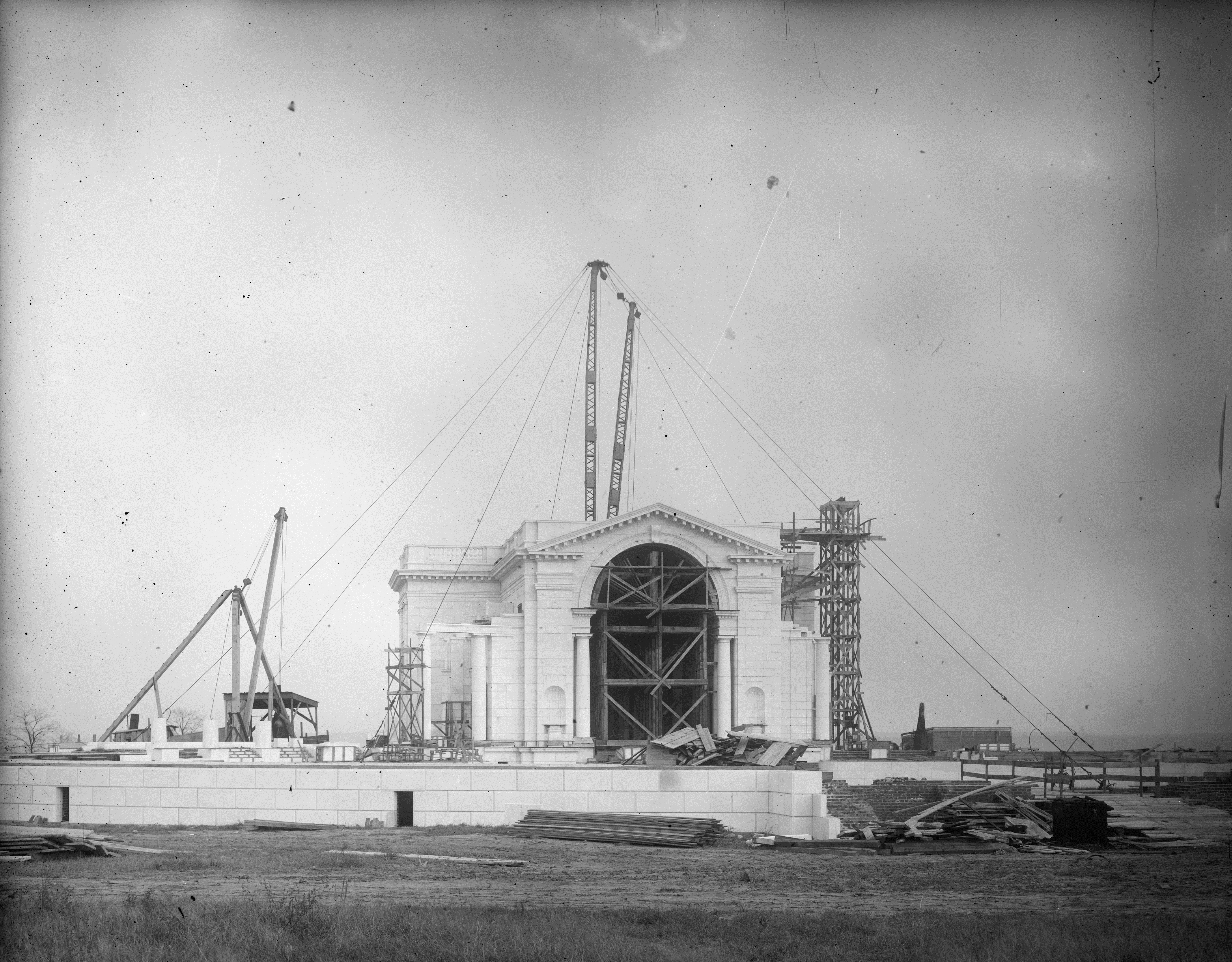 Looking west from the east at the unfinished entrance hall to Memorial Amphitheater in 1916. At Arlington National Cemetery in Arlington County, Virginia, in the United States.